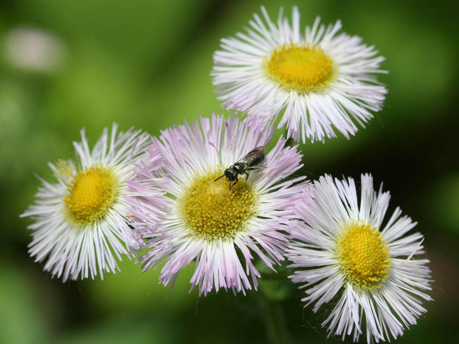 Erigeron annuus (L.) Pers. (Daisy Fleabane, Eastern daisy fleabane)